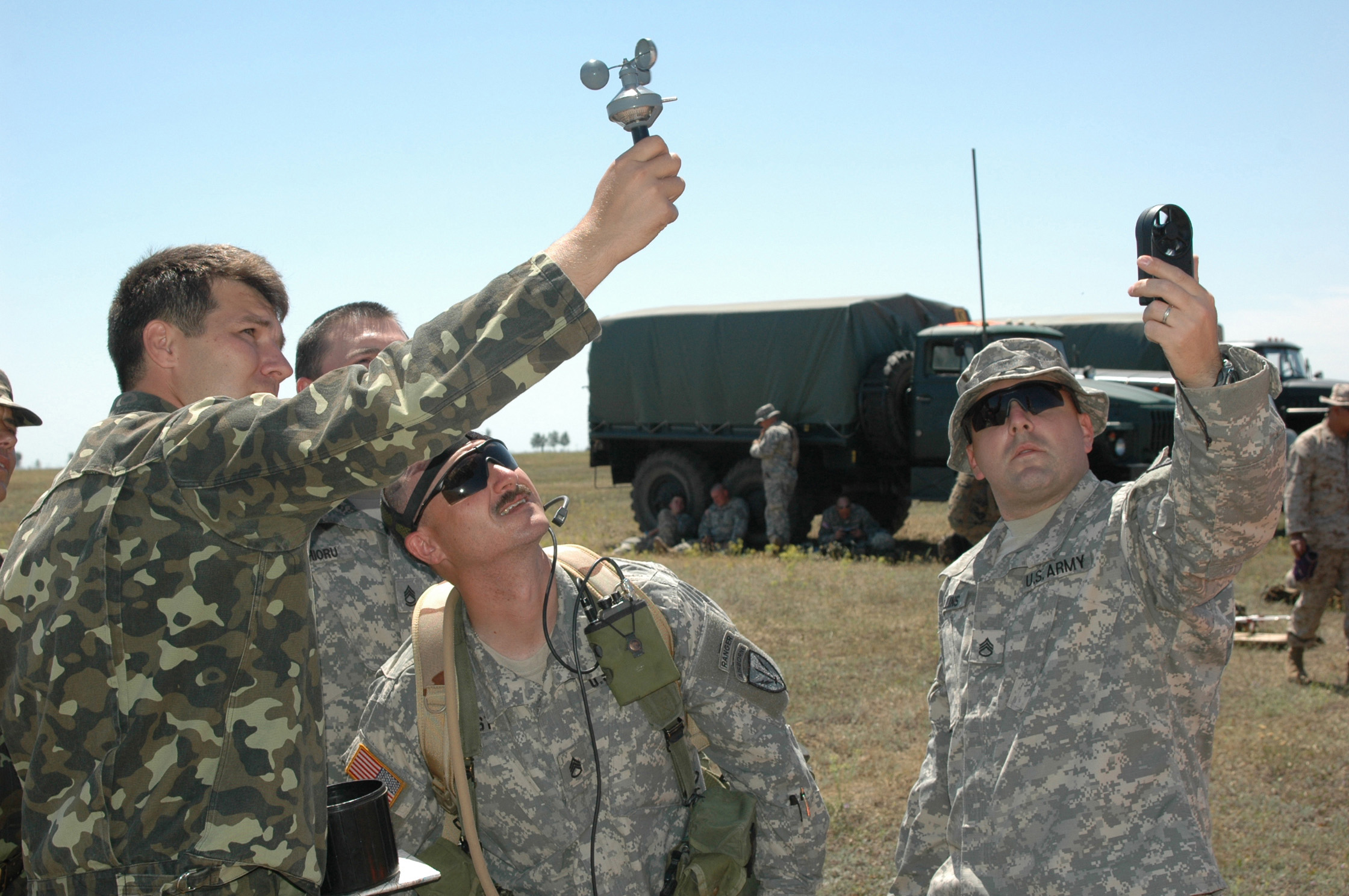 Ukrainian and U.S. soldiers compare wind speed readings during a parachute jump during exercise Sea Breeze in Ukraine July 10, 2007.